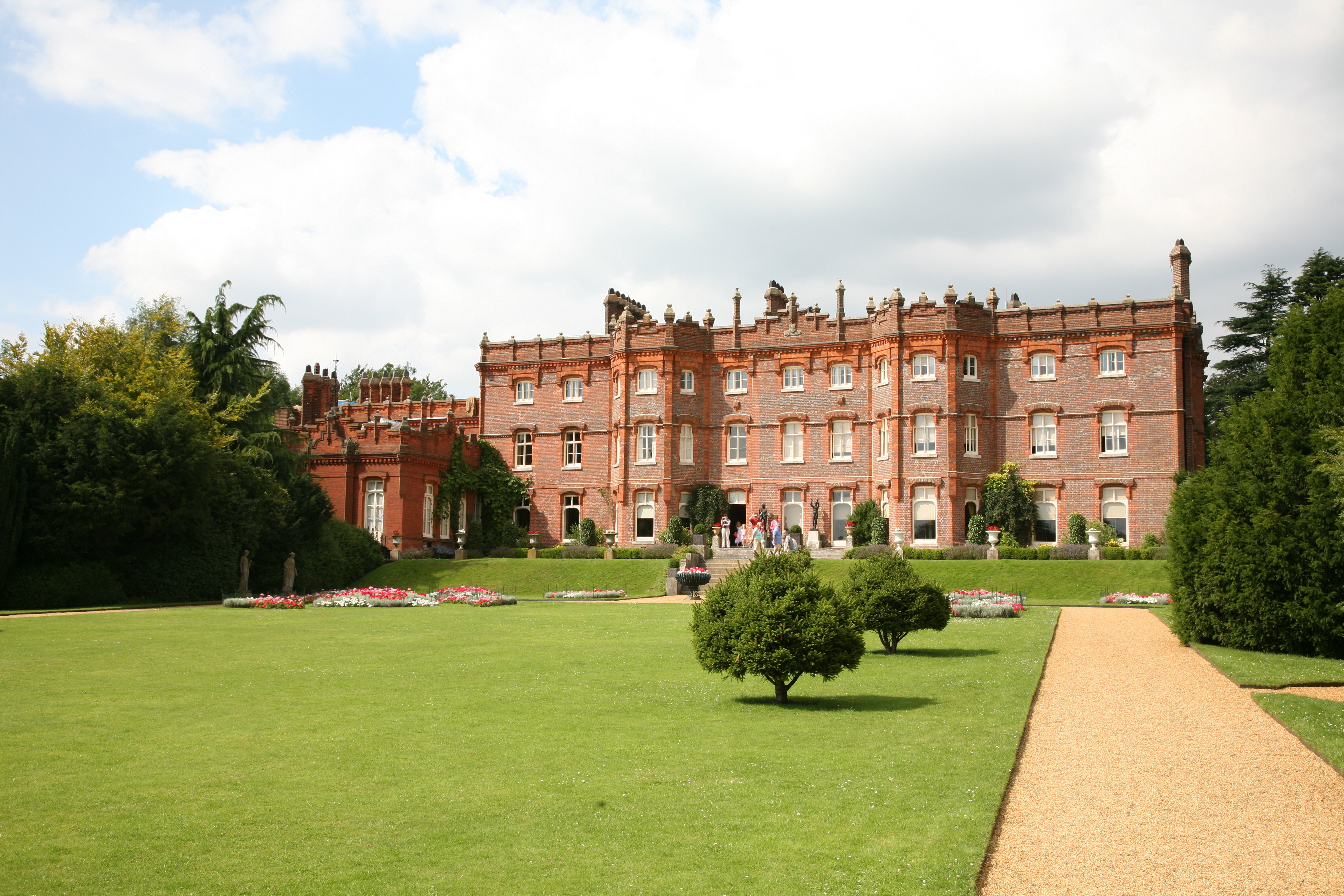 Hughenden Manor. The residence of Benjamin Disraeli, later Earl of Beaconsfield. Now a National Trust property.